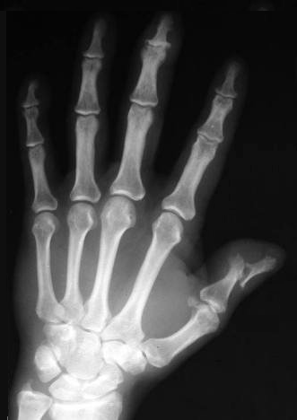 Anteroposterior X-rays of left hand in a patient with Psoriatic arthritis